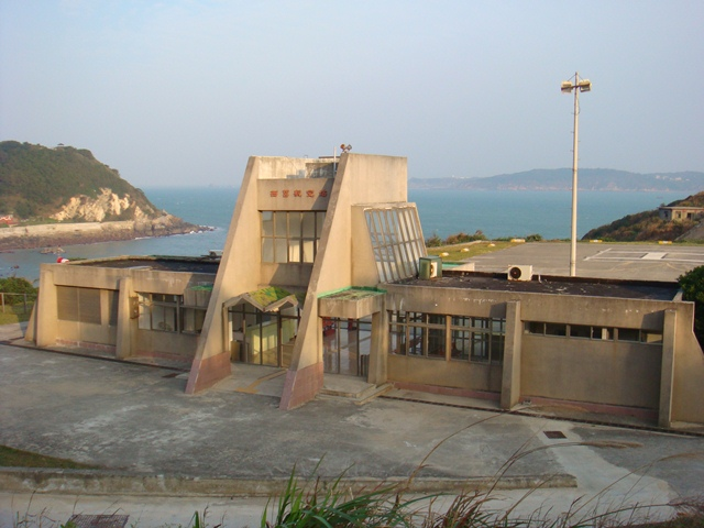 Heliport in Xiju Island, Juguang Township, Lienchiang County, Fujian Province, Republic of China, Xiju.